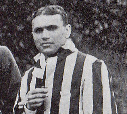 Manek Pallon Bajana, cropped from a larger team photograph